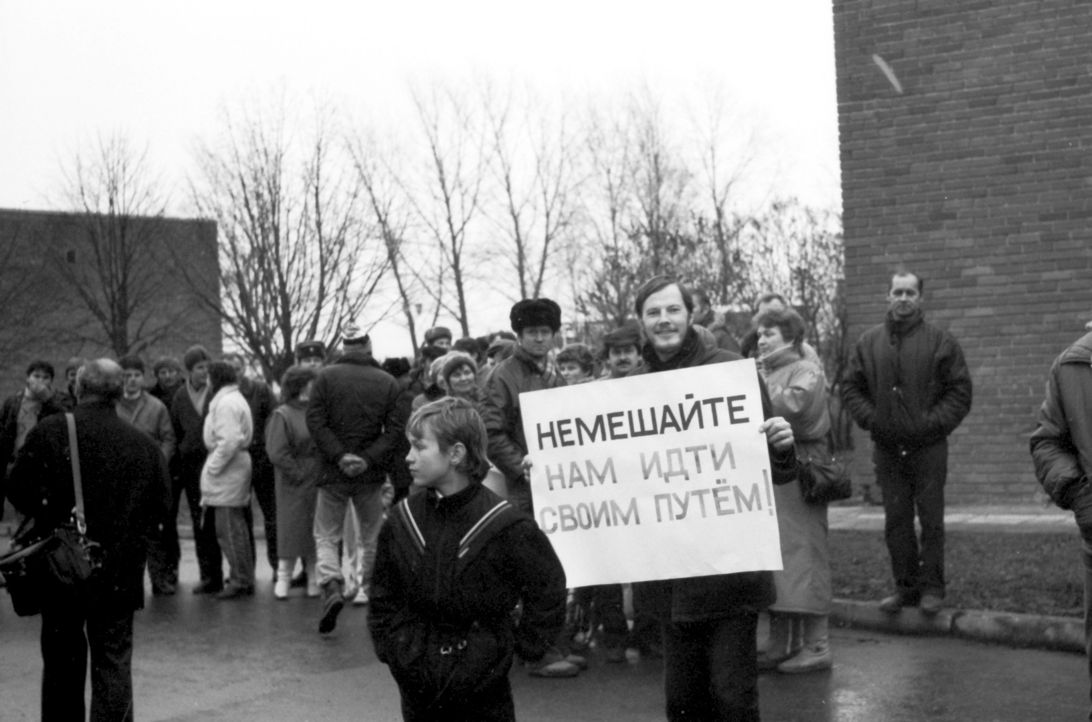 Picket against Mikhail Gorbachew 1990-01-12 in Bridai, Šiauliai district, Lithuania, poster is being held by Algimantas Končius[1]